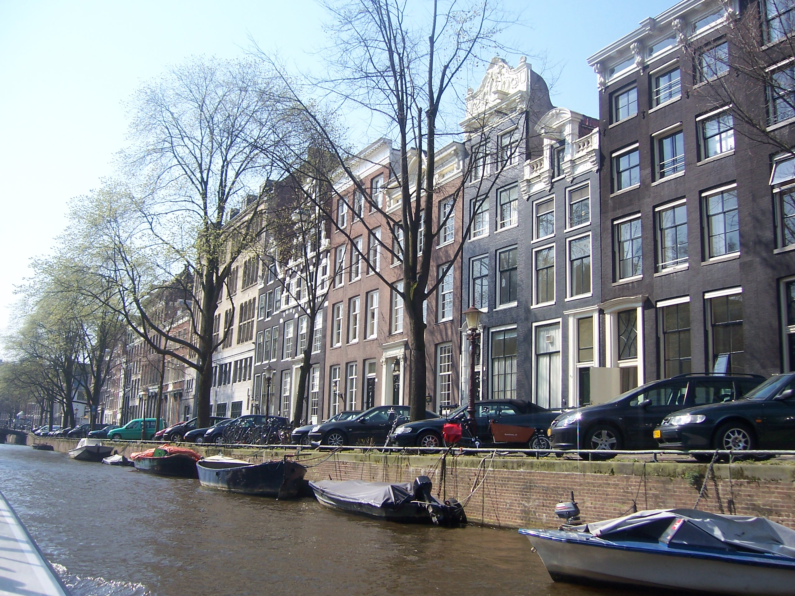 Some of the houses along one of the canals. This is an image of rijksmonument number 1739